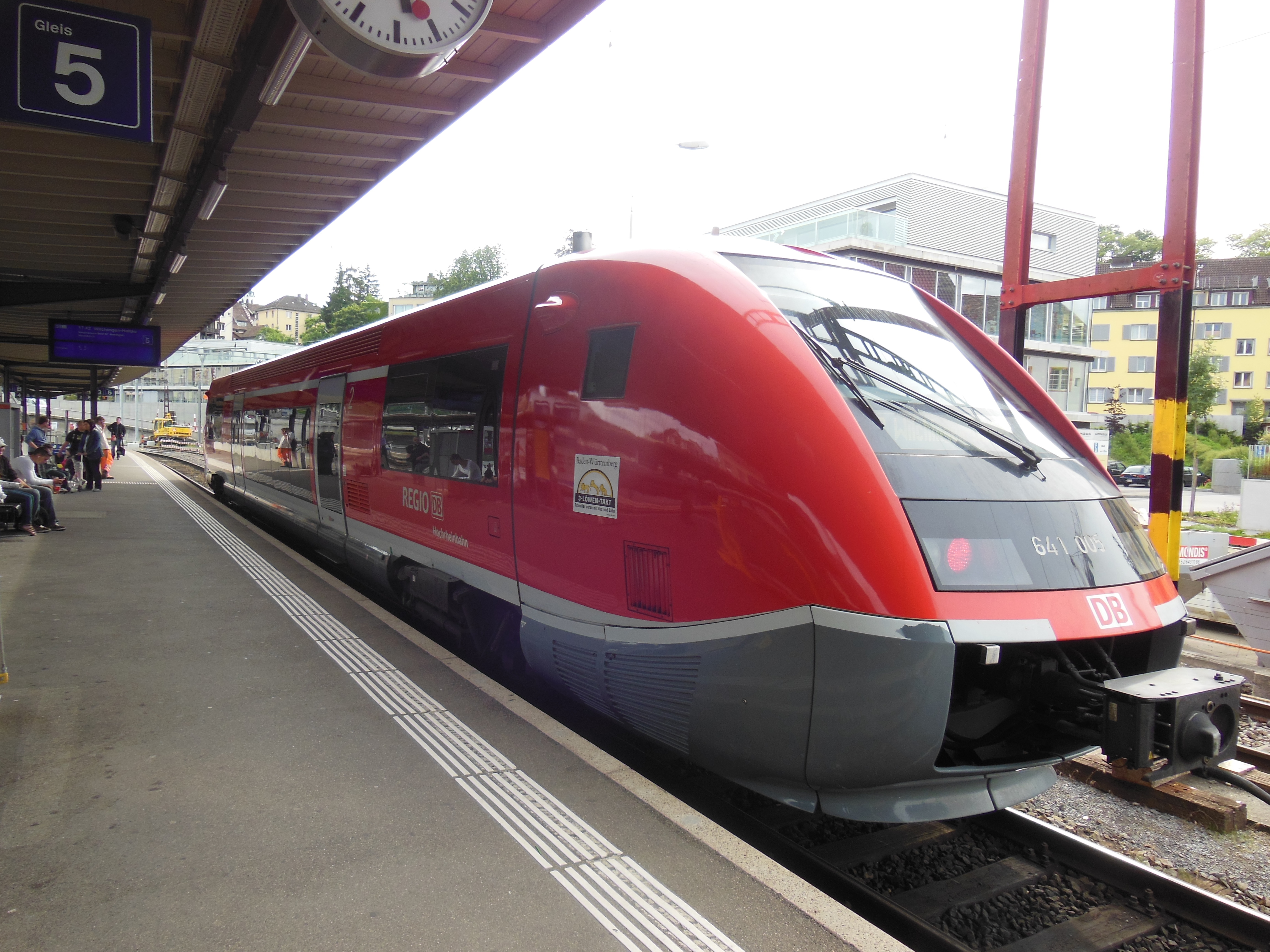 German Railways Class 641 railcar in Schaffhausen railway station. For more information, see the Wikipedia articles Schaffhausen railway station and DBAG Class 641.